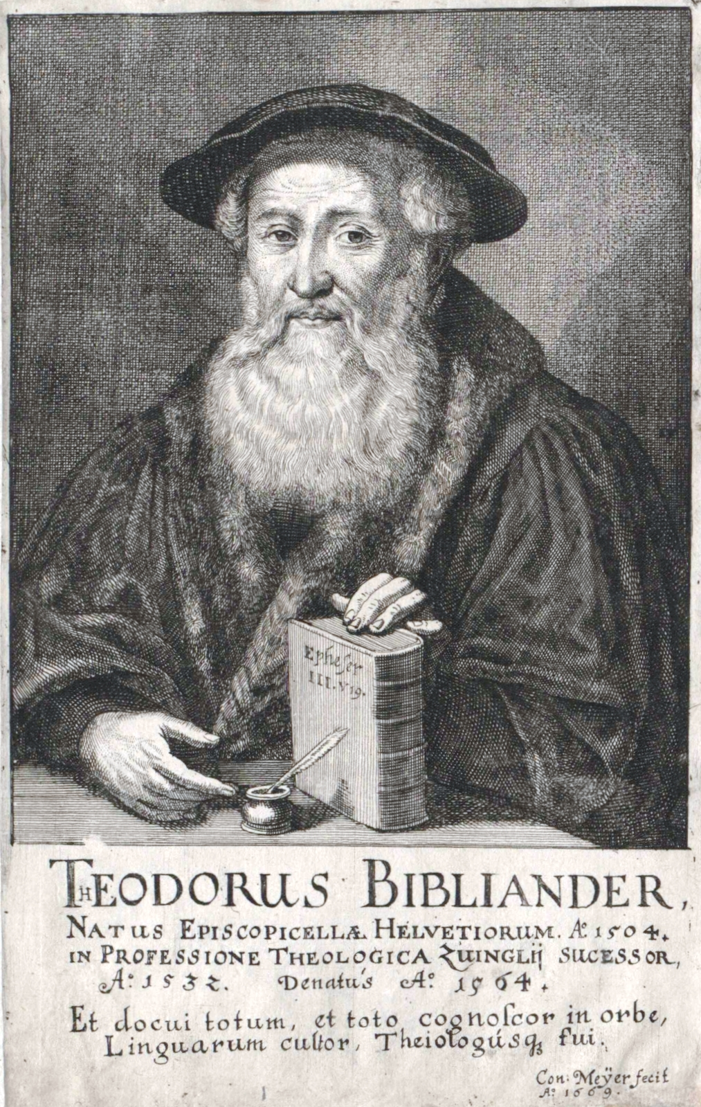 Theodor Bibliander (1504–1564)